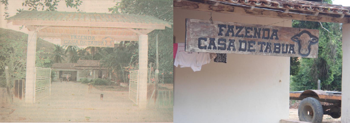 House of Tábua - Headquarters of the Government of the State of Jehovah